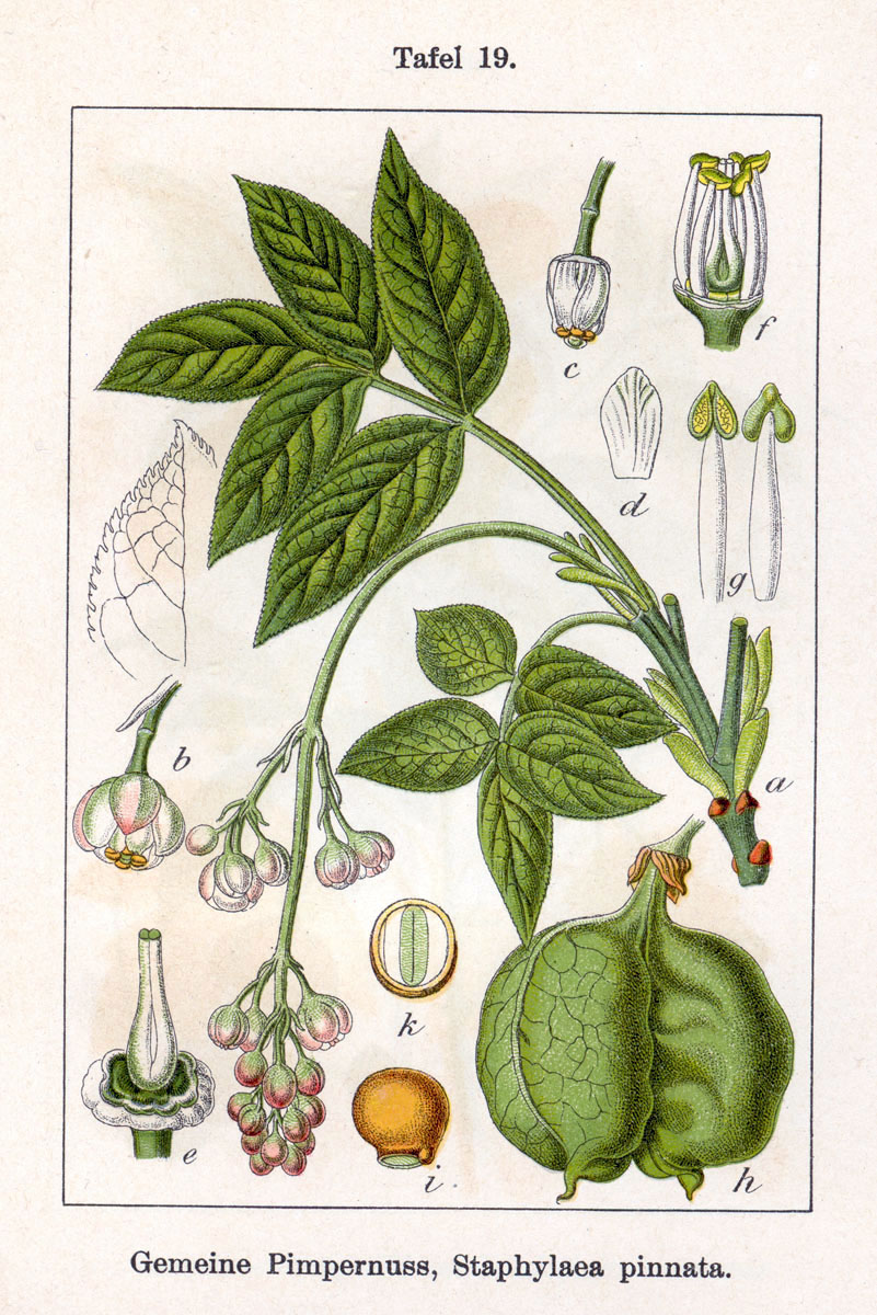 Staphylea pinnata L. Original Description Gemeine Pimpernuss, Staphylaea pinnata